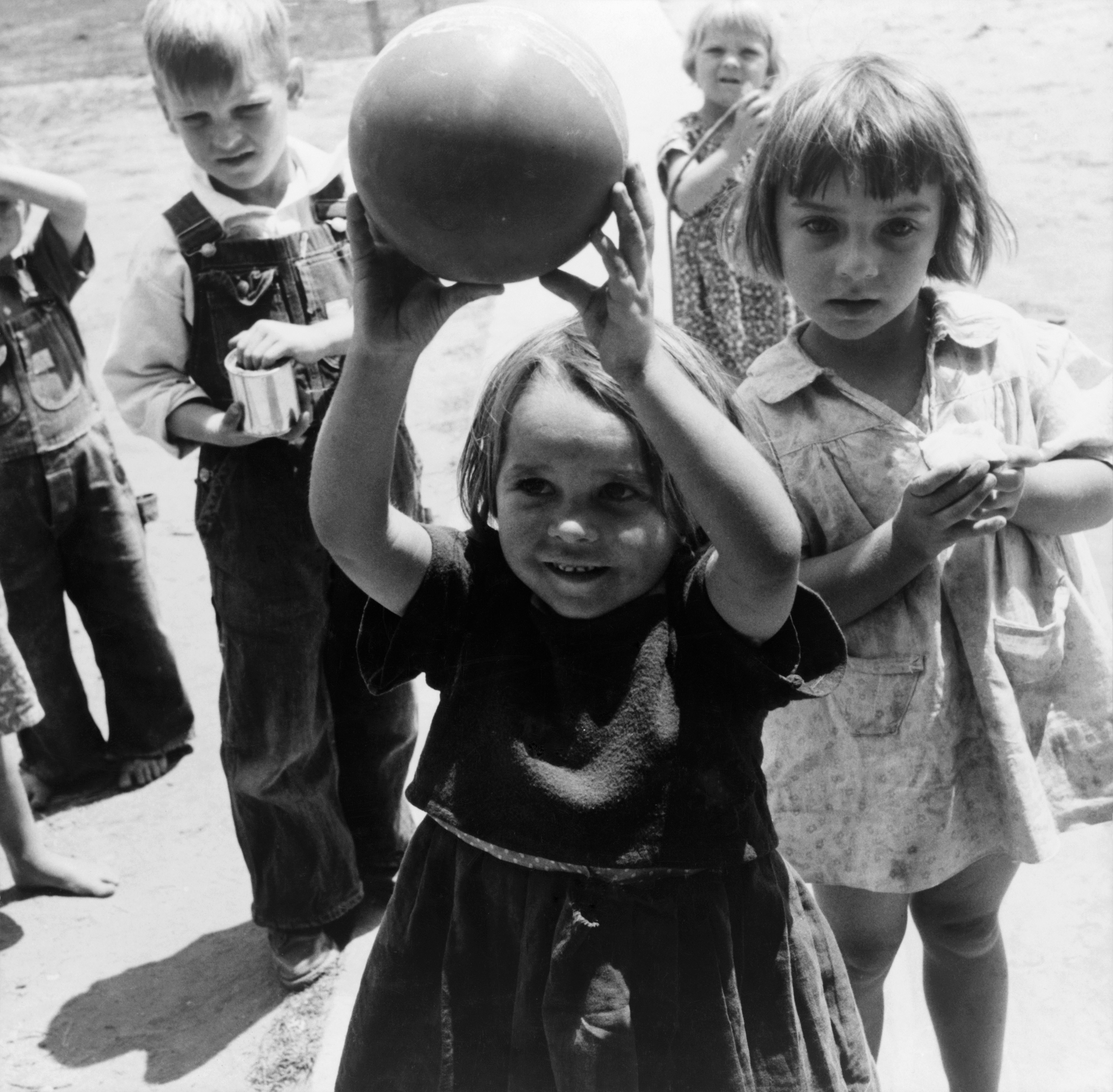 Farm Security Administration (FSA) camp for migrant agricultural workers. Nursery school, showing migrant children playing. Tulare County, California.